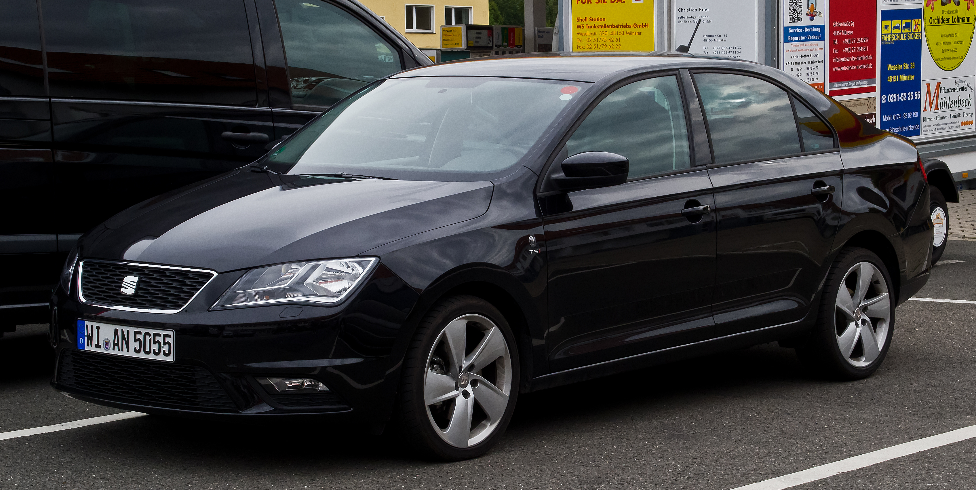 Seat Toledo 1.4 TSI Style Salsa (IV)